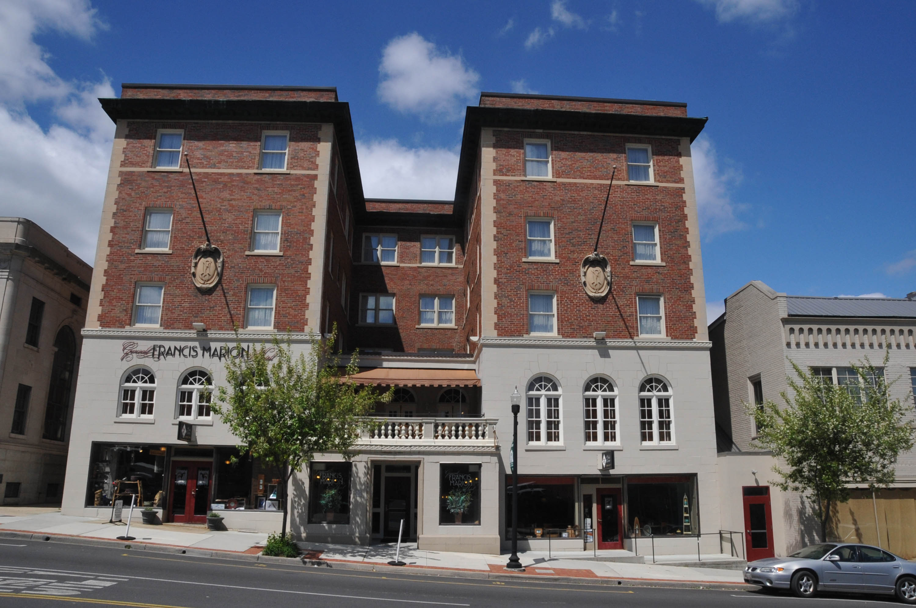 107 MAIN STREET IS LISTED AS THE HOTEL LINCOLN. IT WAS ORIGINALLY KNOWN AS FRANCIS MARION HOTEL, THEN HOTEL LINCOLN, BUT NOW IT IS BACK TO ITS ORIGINAL NAME